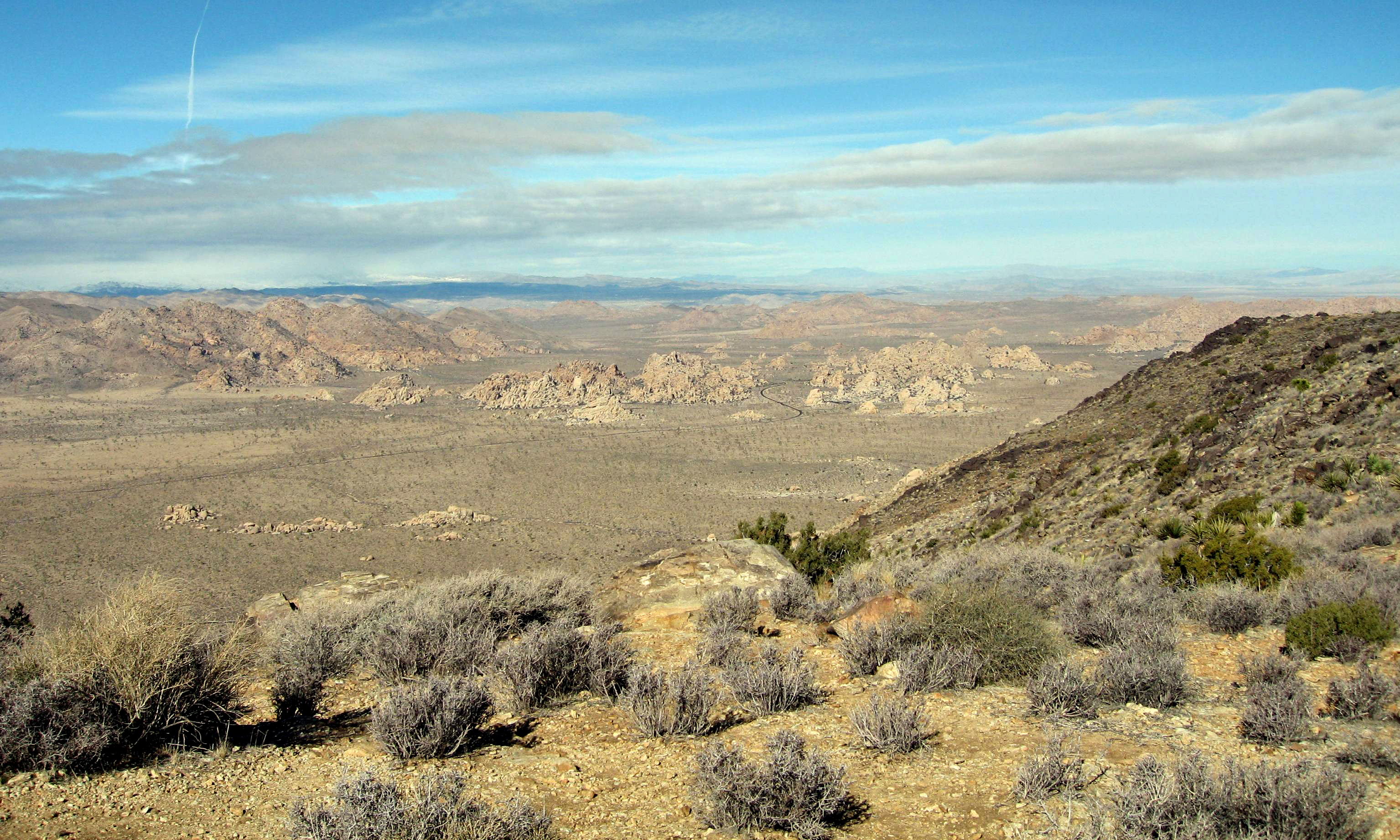 NPS/Robb Hannawacker